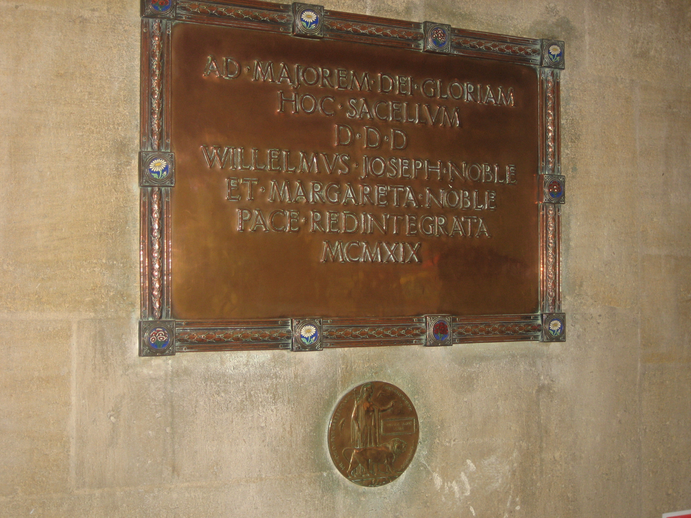 Plaque in Westminster College, Cambridge (England, UK). "Ad maiorem Dei gloriam sacellum DDD Willelmus Joseph Noble et Margareta Noble pace redintegrata MCMXIX". The small round plaque underneath reads: "He died for freedom and honour - William Black Noble"